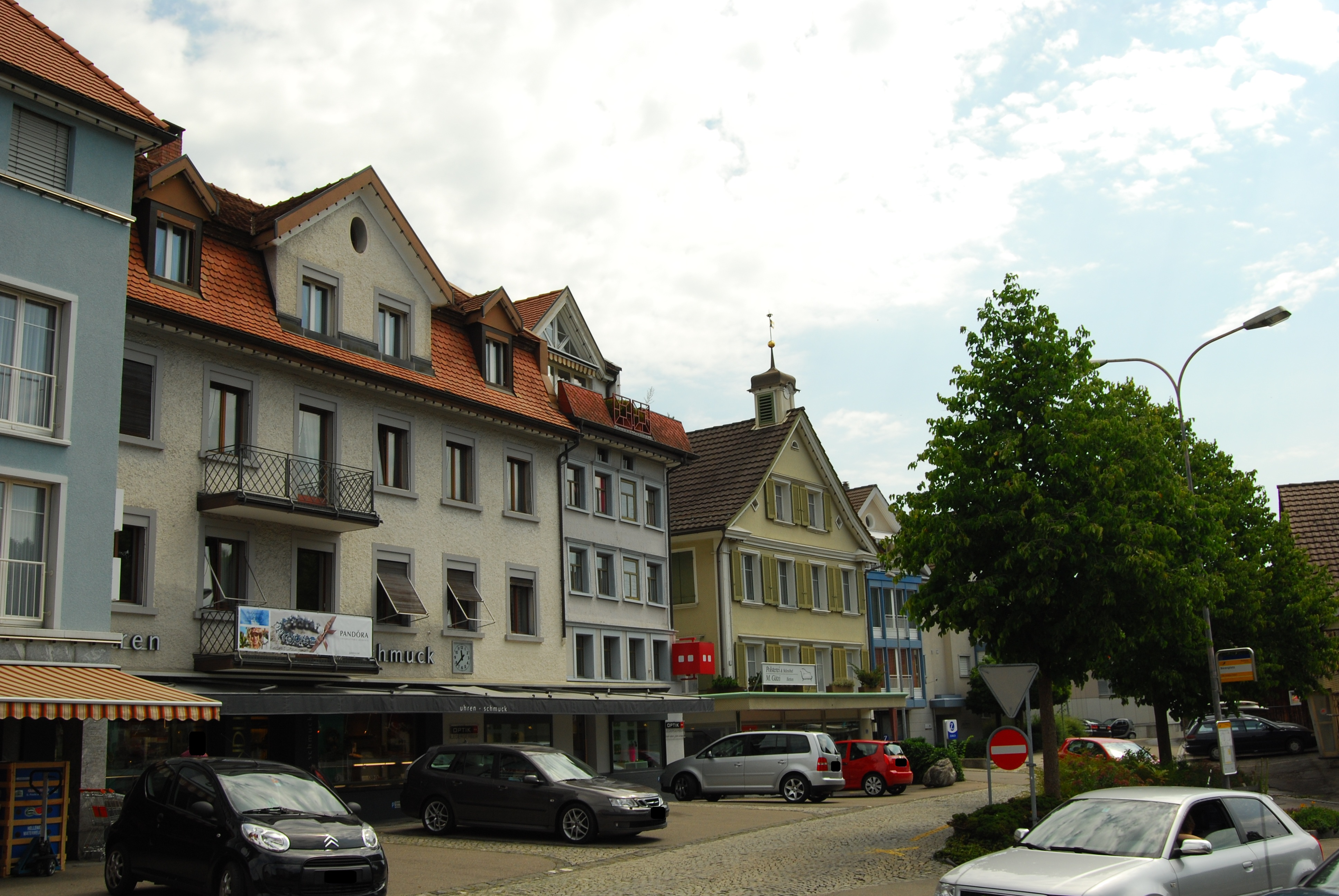 Flawil, canton of St. Gallen, Switzerland